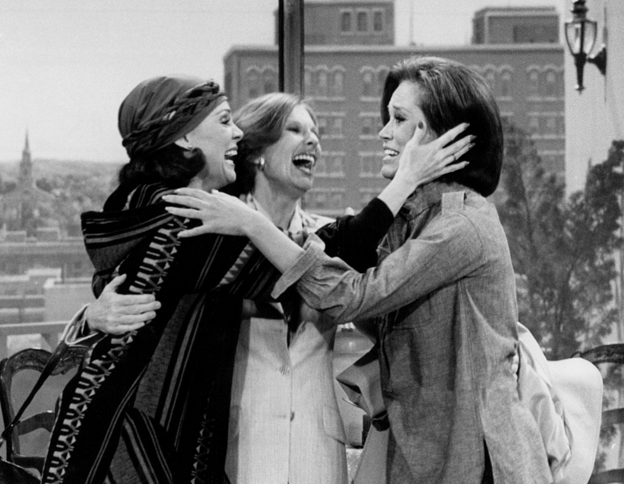 Photo from the last episode of The Mary Tyler Moore Show. Rhoda Gerard (Valerie Harper, left) and Phyllis Lindstrom (Cloris Leachman, center) come to cheer up Mary Richards (Mary Tyler Moore) after hearing the news that WJM-TV has been sold and that she and most of the staff are now unemployed.